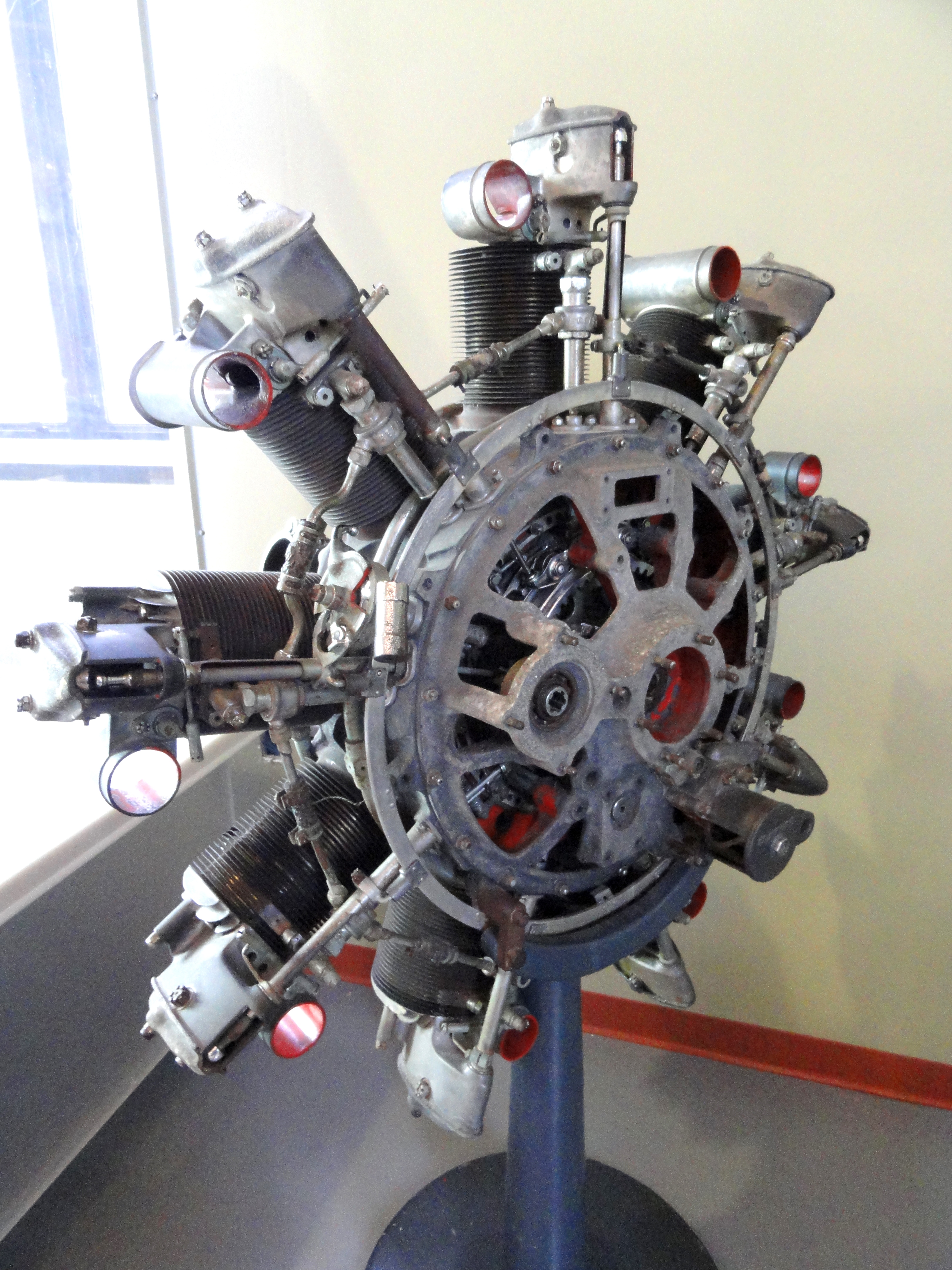 A Packard 9-cylinder Diesel radial engine in the Franklin Institute, Philadelphia, Pennsylvania, USA.